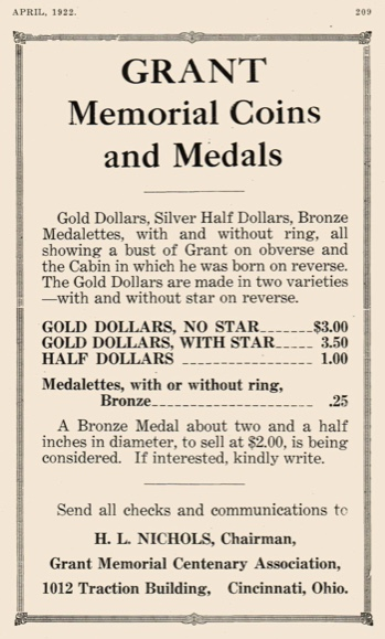 Advertisement for the Grant Memorial half dollar and gold dollar